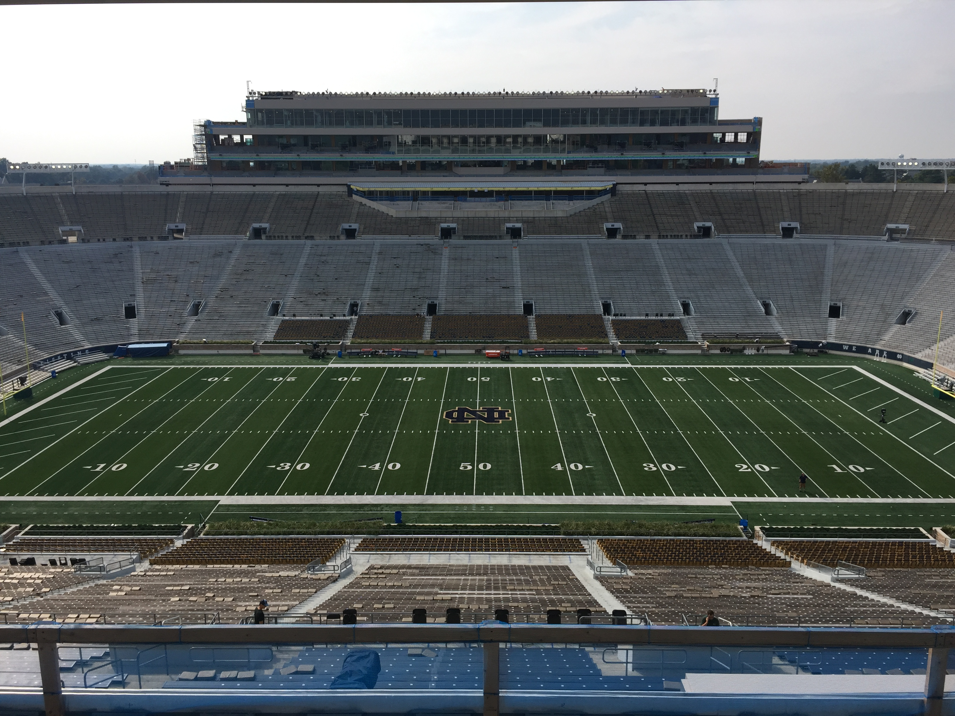 View of the football stadium at Notre Dame from the new premium seating installed during the campus crossroads project.